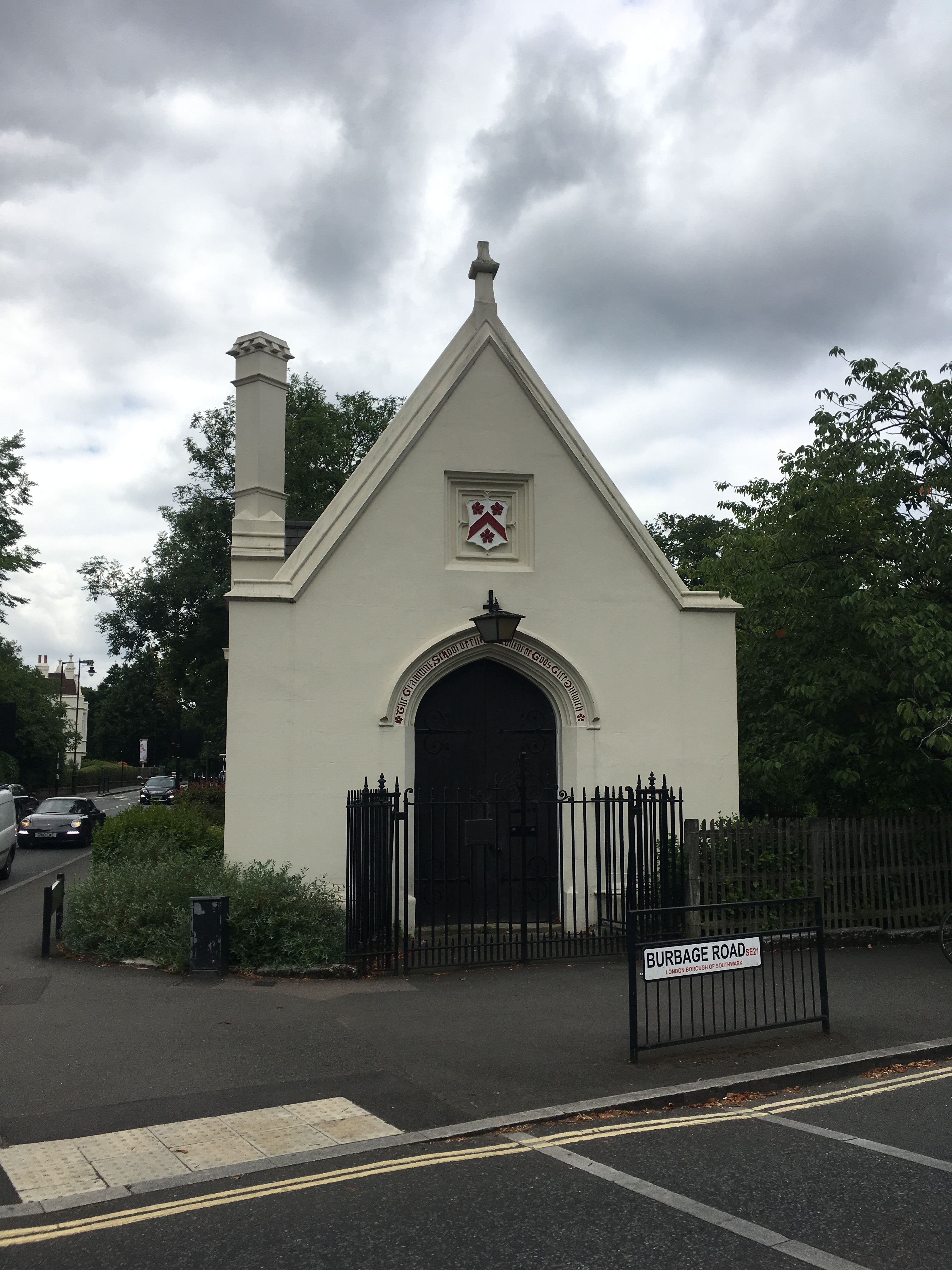 Old Grammar School And Railings Wikidata has entry Q26665325 with data related to this item.